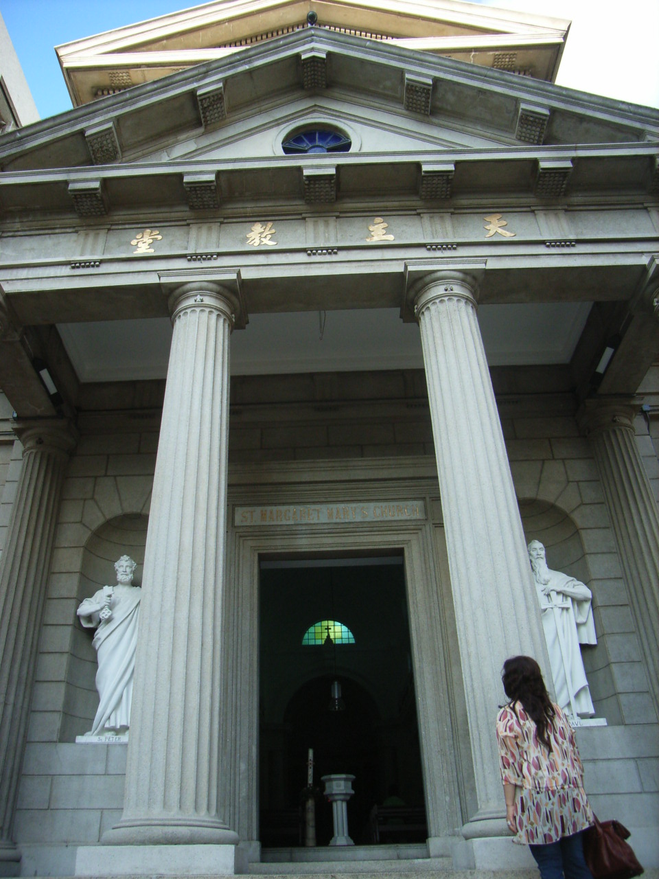 聖瑪加利大堂, St Margaret Mary's Church, Broadwood Road, Happy Valley, Hong Kong Author: BEVERLYSHEN